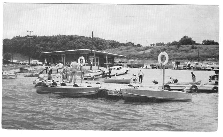 Thousand Hills State Park Marina in mid-1950s